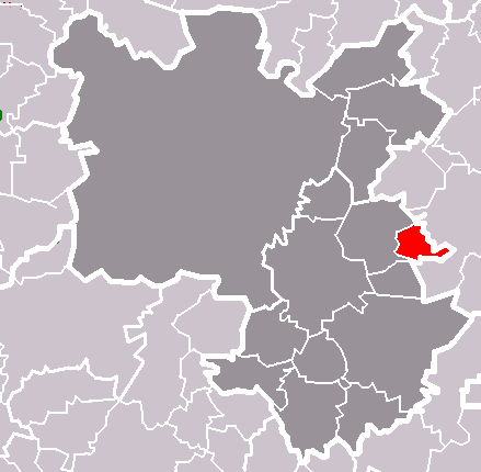 Location of Mokrouše municipality within Plzeň-City District.